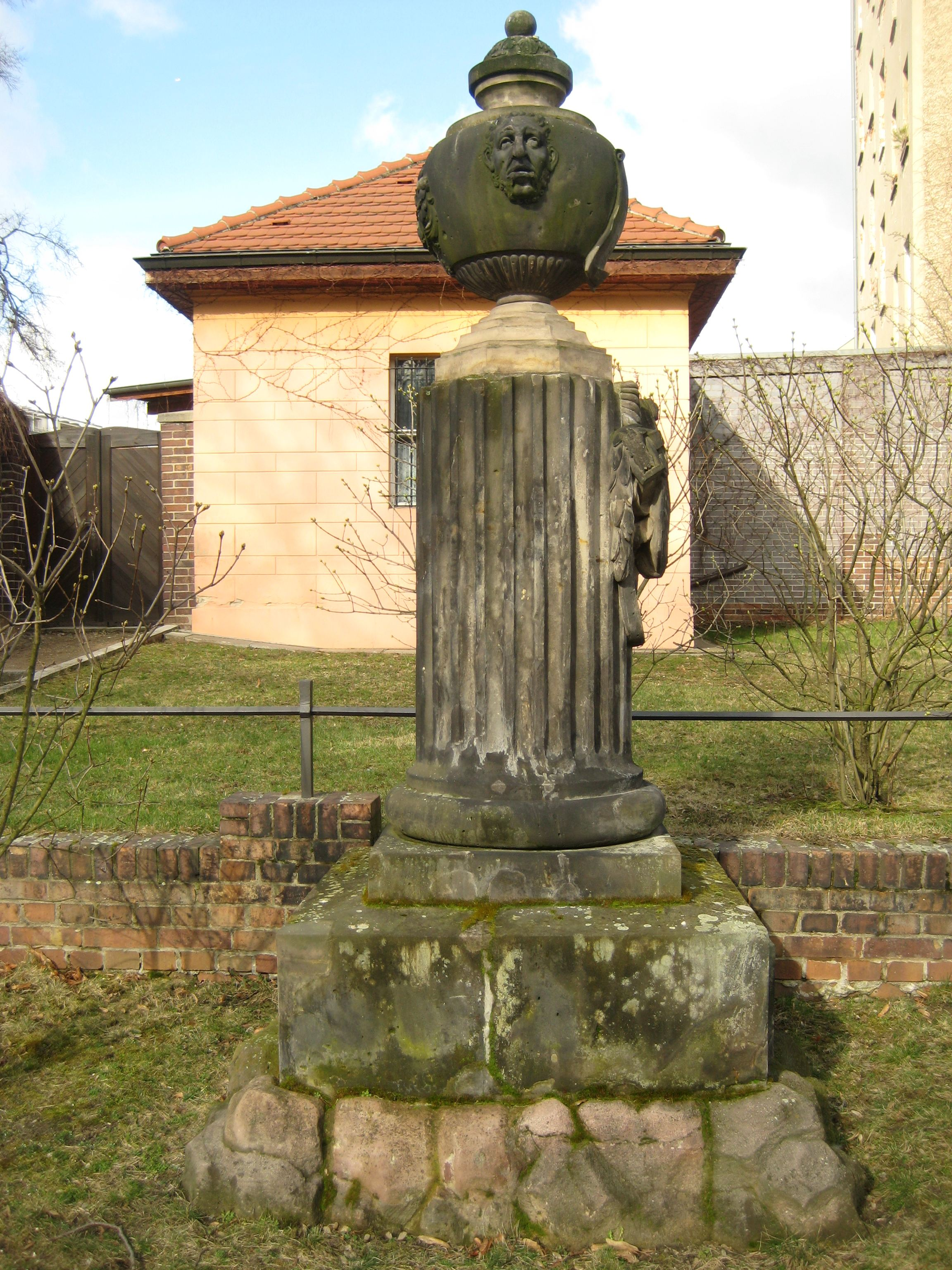 Grave monument of Ernst Otto von Reineck (d. 1791) at Invalidenfriedhof cemetery in Berlin